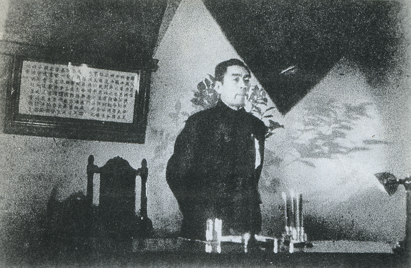 Zhou En Lai polical consultation conference talk